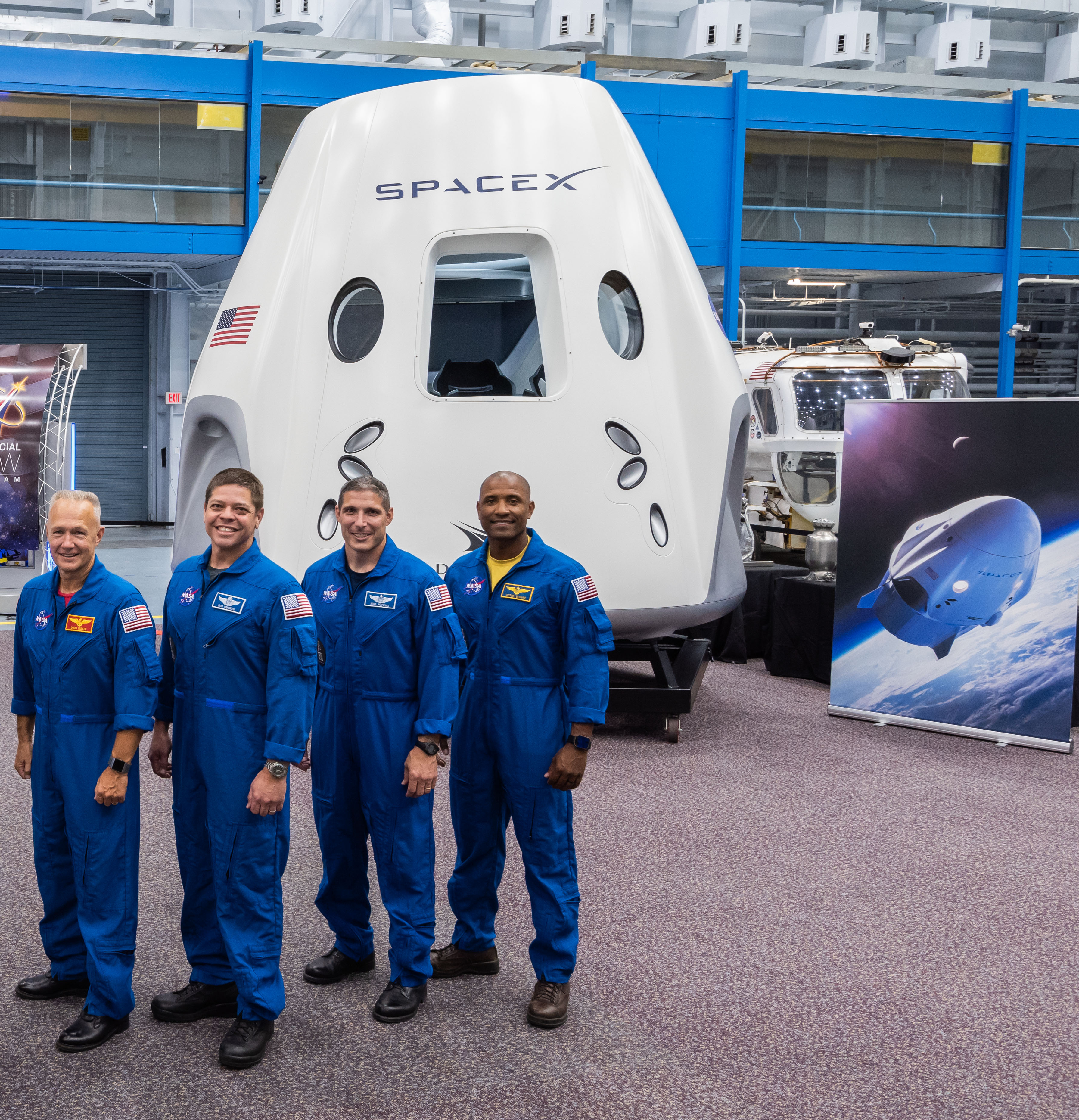 SpaceX Dragon 2 (Crew Dragon) and the astronauts assigned to the first two flights, August 3, 2018. The astronauts are, from left to right: Douglas Hurley, Robert Behnken, Michael Hopkins and Victor Glover.